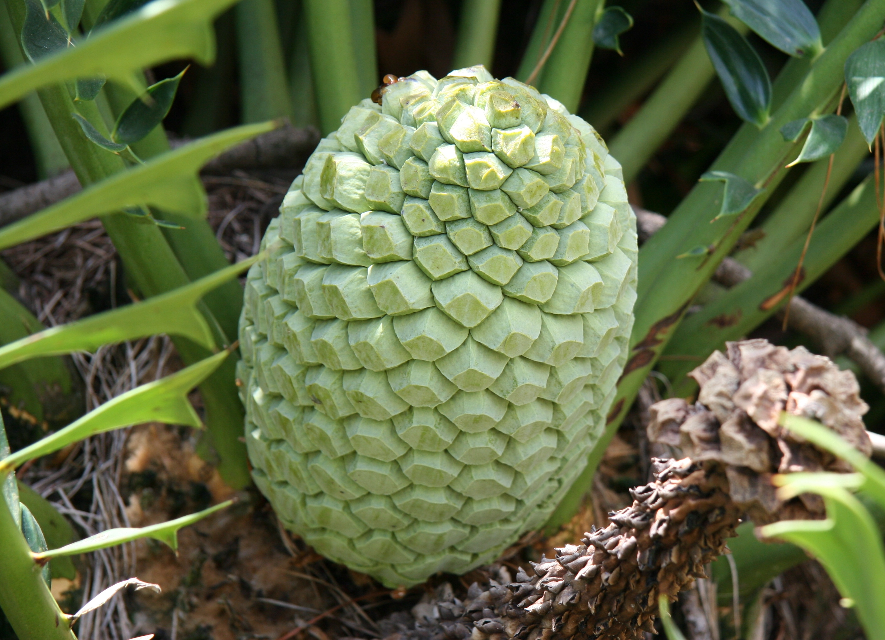 Encephalartos arenarius in Zamiaceae Cycad, Cape Province, South Africa